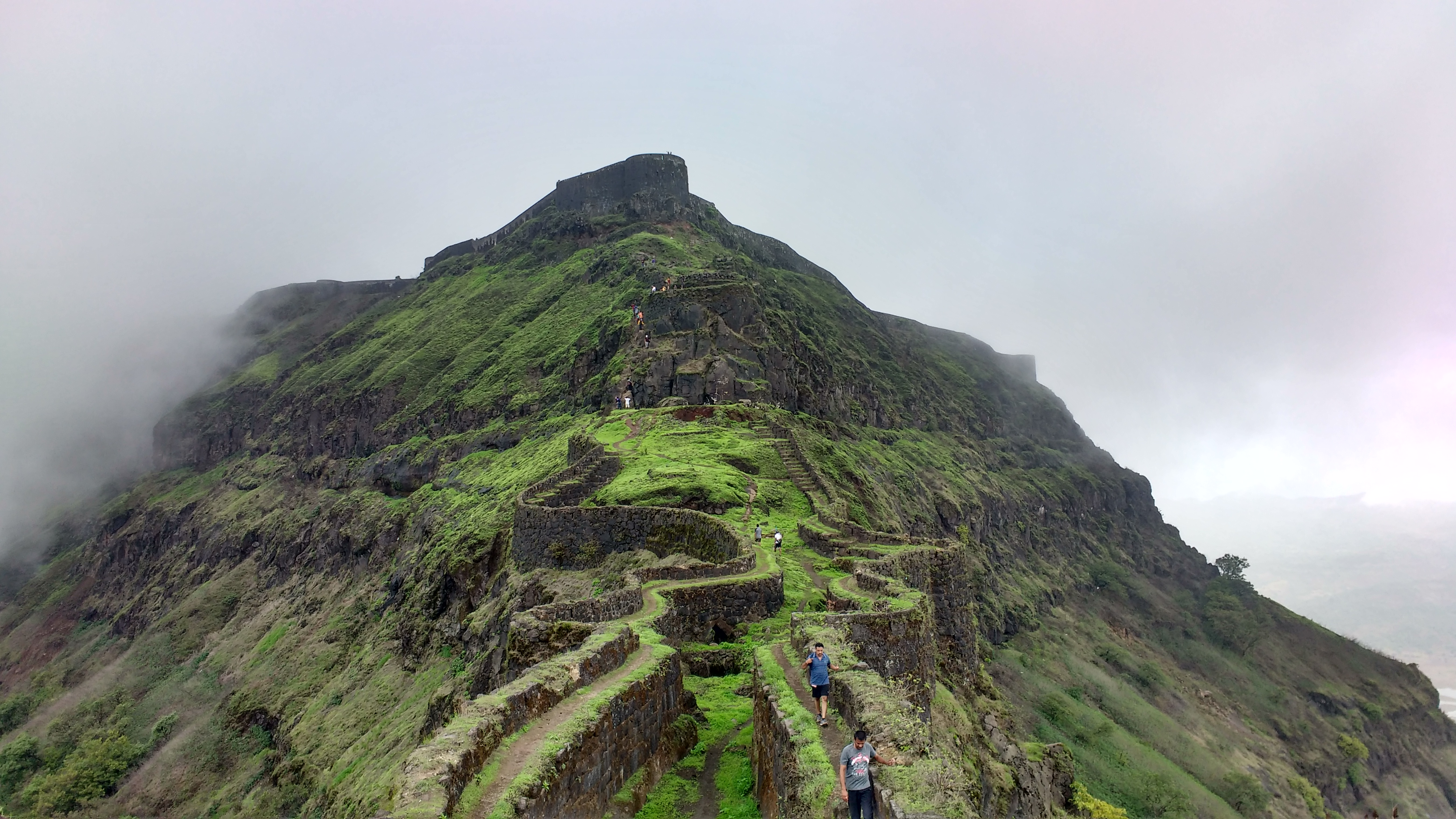 Torna Fort's view from Zunjar machi dangerous trek to reach this machi